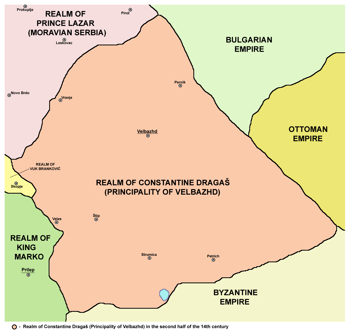 Principality of Velbazhd was one of the states that emerged from the collapse of the Serbian Empire in the 14th century.Велбуждска кнежевина, једна од држава насталих у време распада Српског царства у 14. веку.